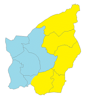 San Marino in 1460 (blue) and territories annexed in 1463 (yellow)